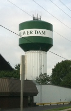 Water tower in Beaver Dam, Wisconsin